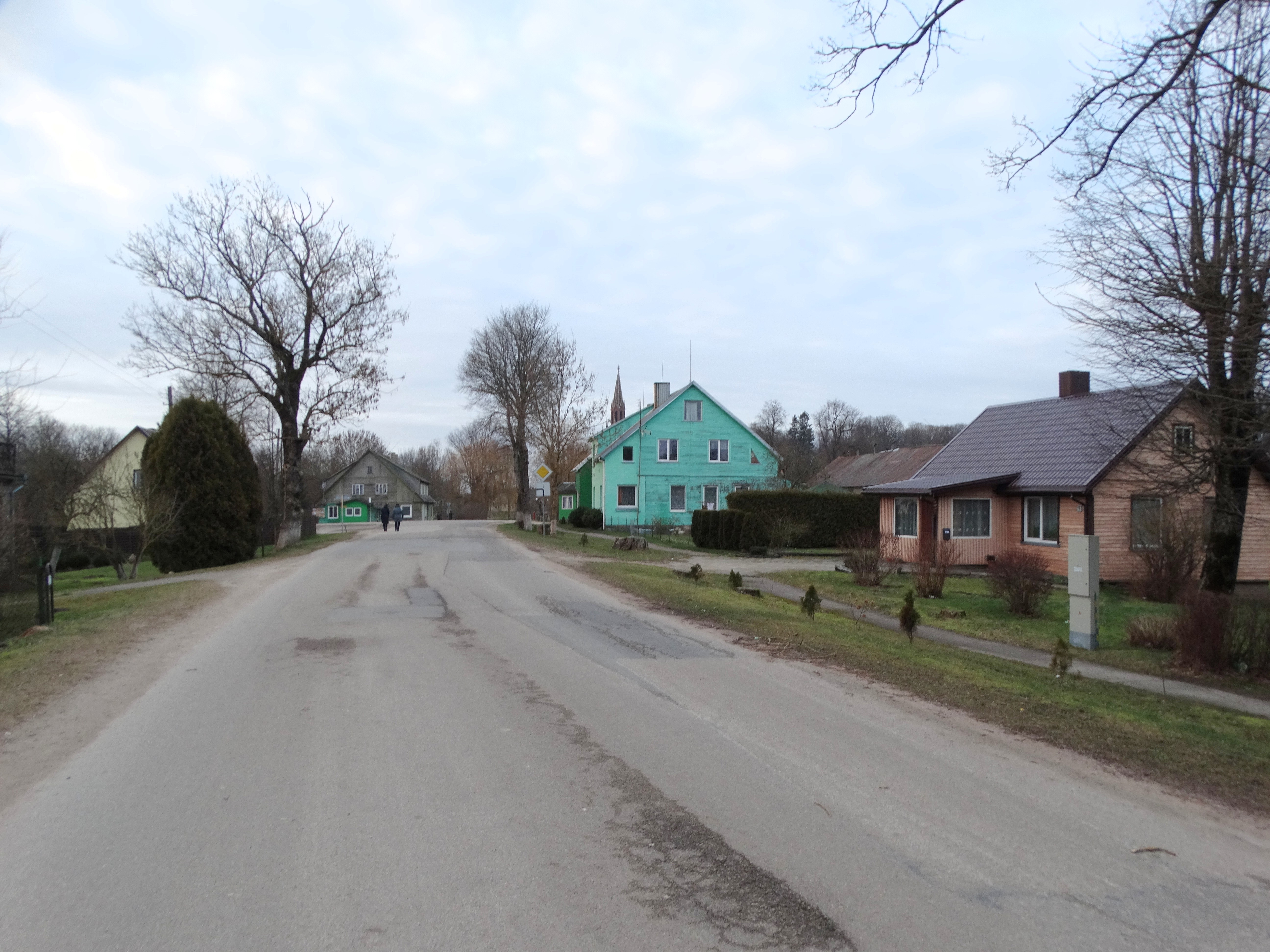 Šateikiai, Plungė district, Lithuania